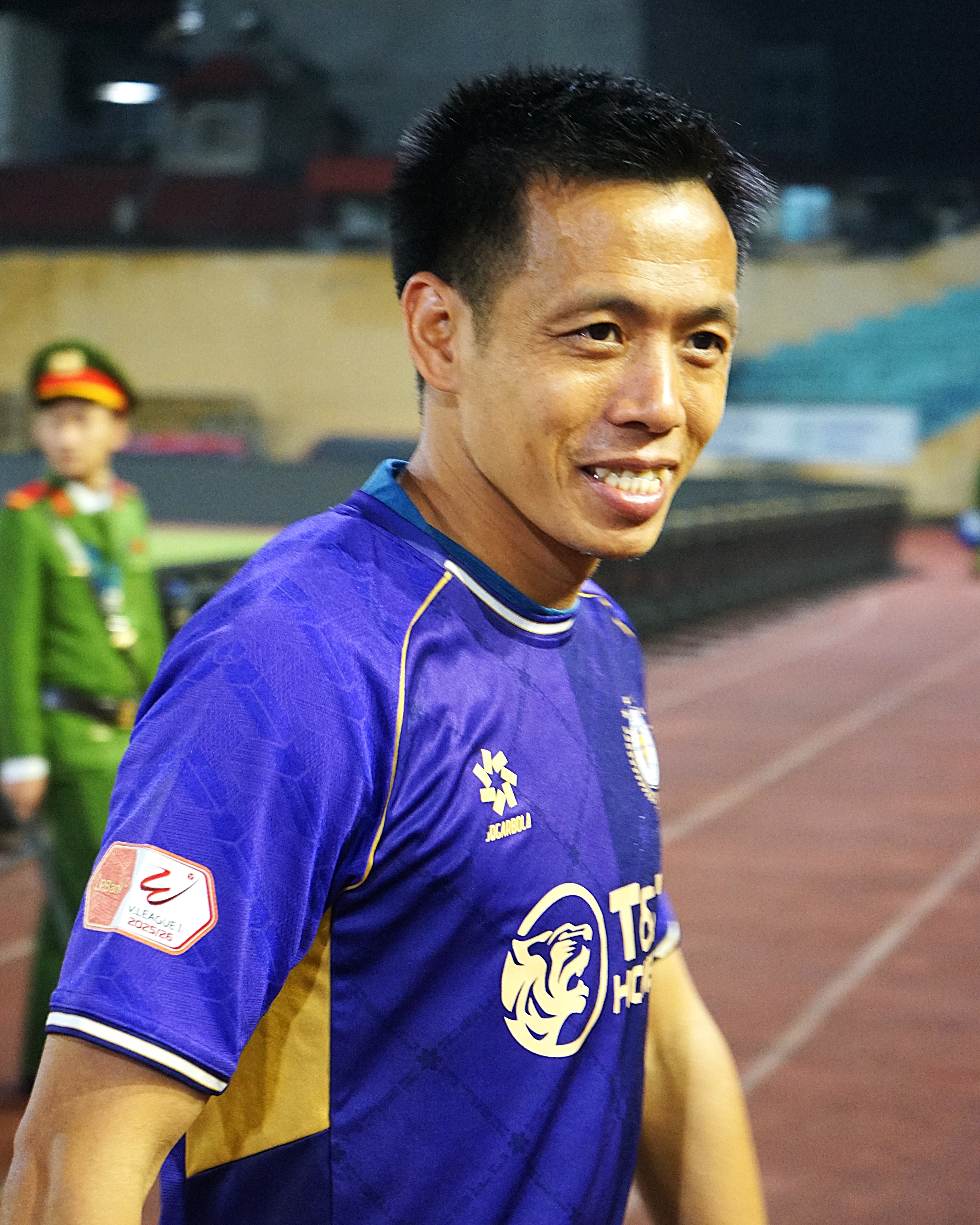 Nguyen Van Quyet playing football